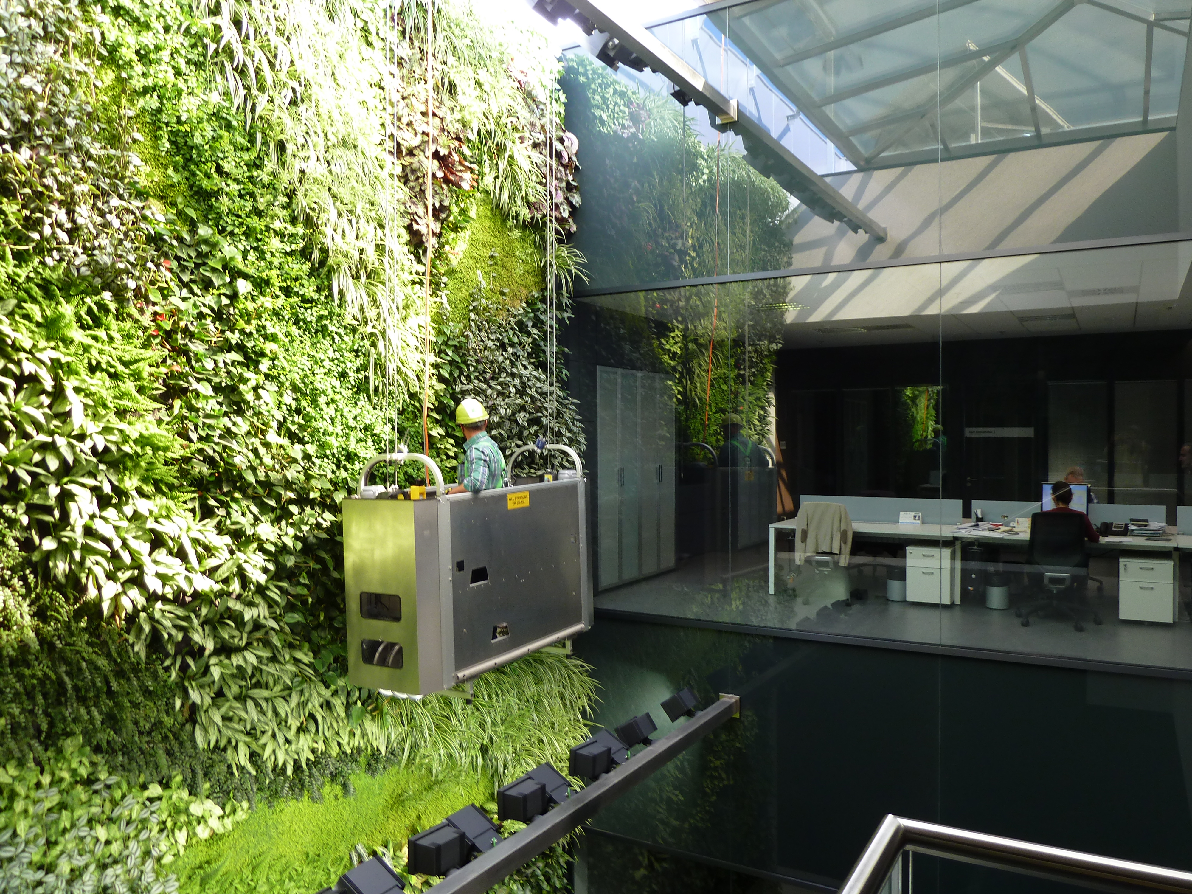 Spanish green wall